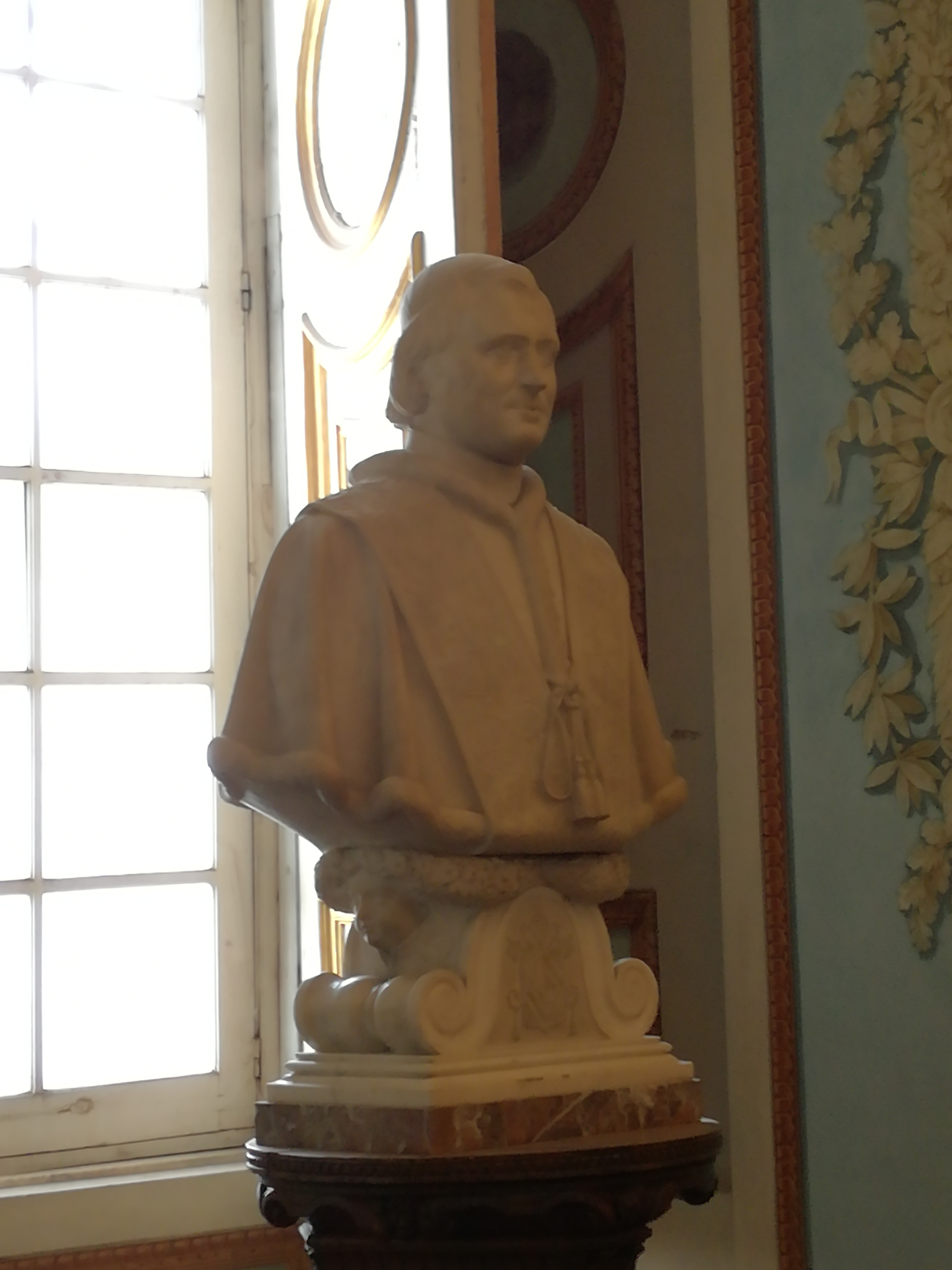 Ænglisc: Bust of Pontifex Pius IX, made by Lorenzo Bartolini in 1849 and placed in Reggia of Caserta